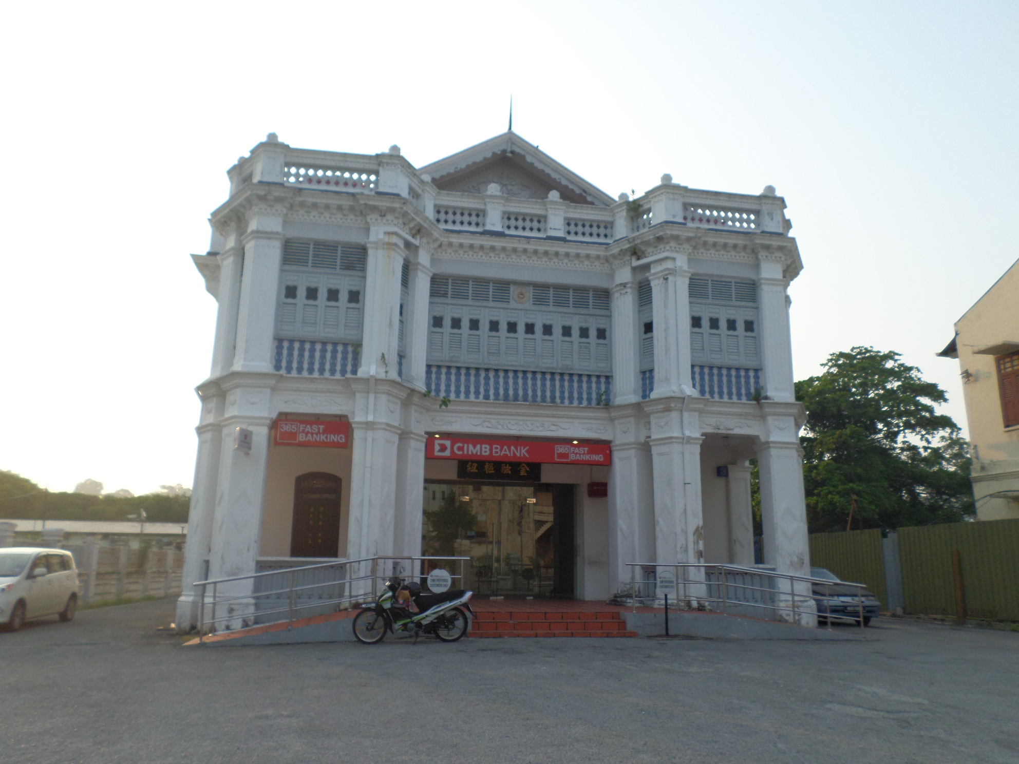 CIMB Bank Bendahara Street Branch, Melaka City, Melaka, MalaysiaBahasa Melayu: Bank CIMB Cawangan Jalan Bendahara, Bandaraya Melaka, Melaka, Malaysia